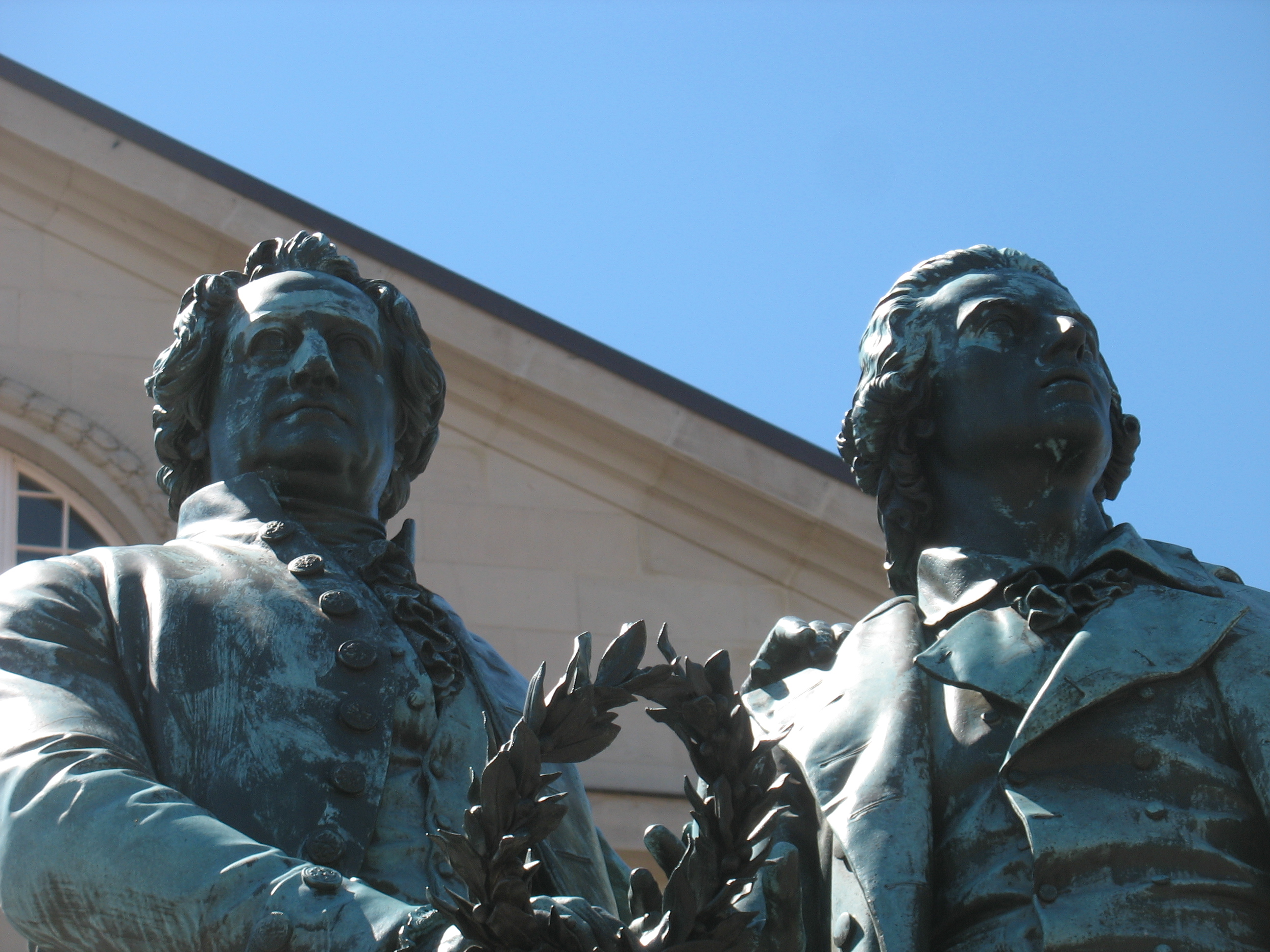 Goethe and Schiller statue in front of the National theater in Weimar, Germany.